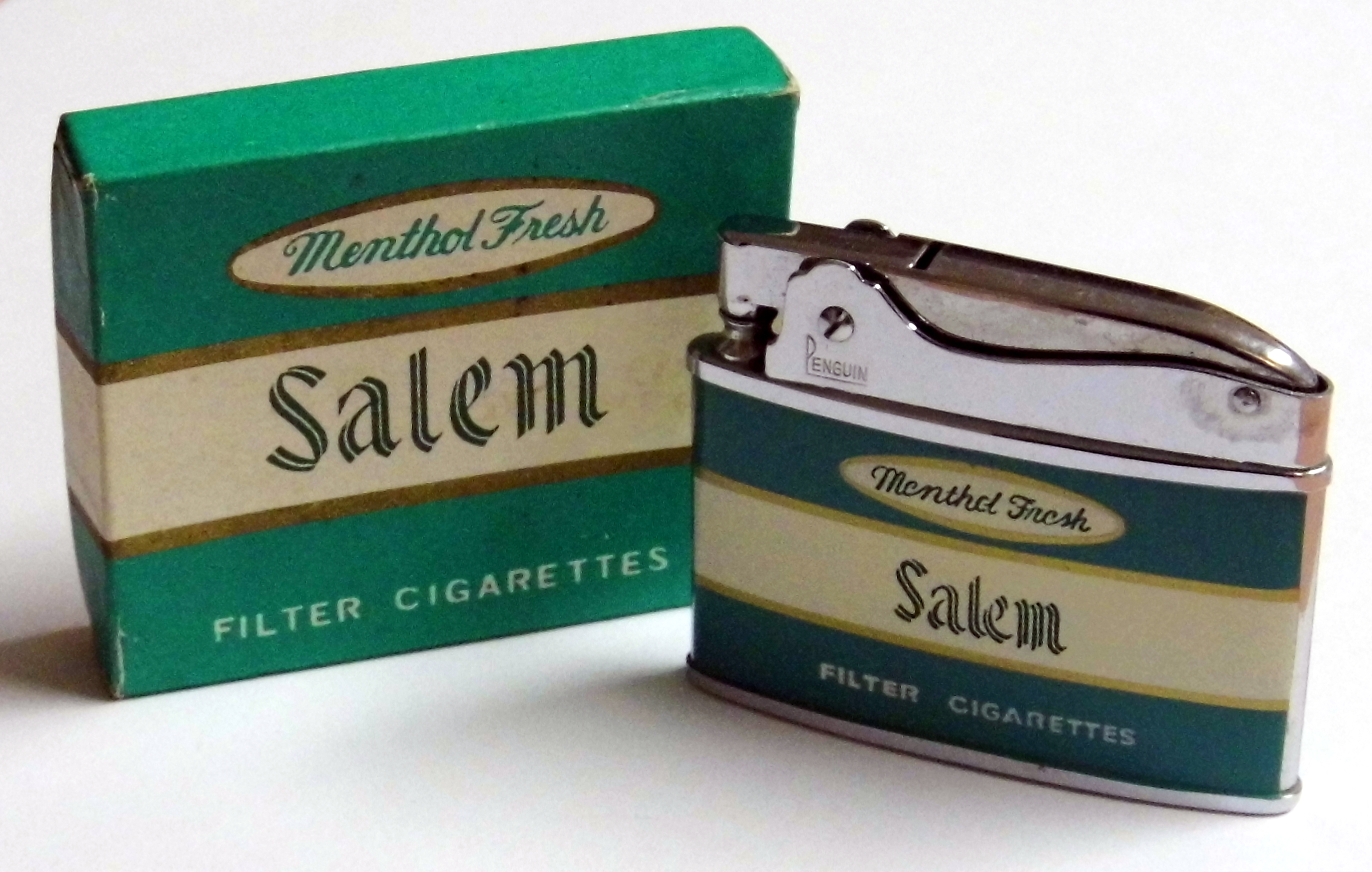 Vintage Salem Cigarette Lighter by Penguin, No. 18250, Made in Japan